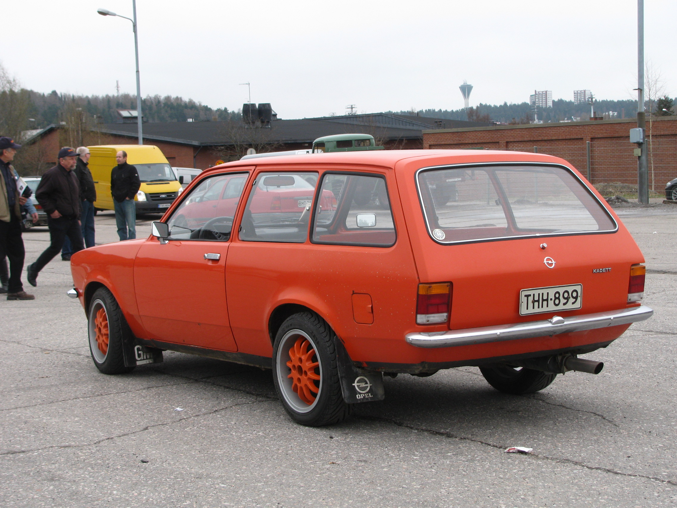 Opel Kadett C estate wagon. Classic Motor Show parking lot in Lahti, Finland.